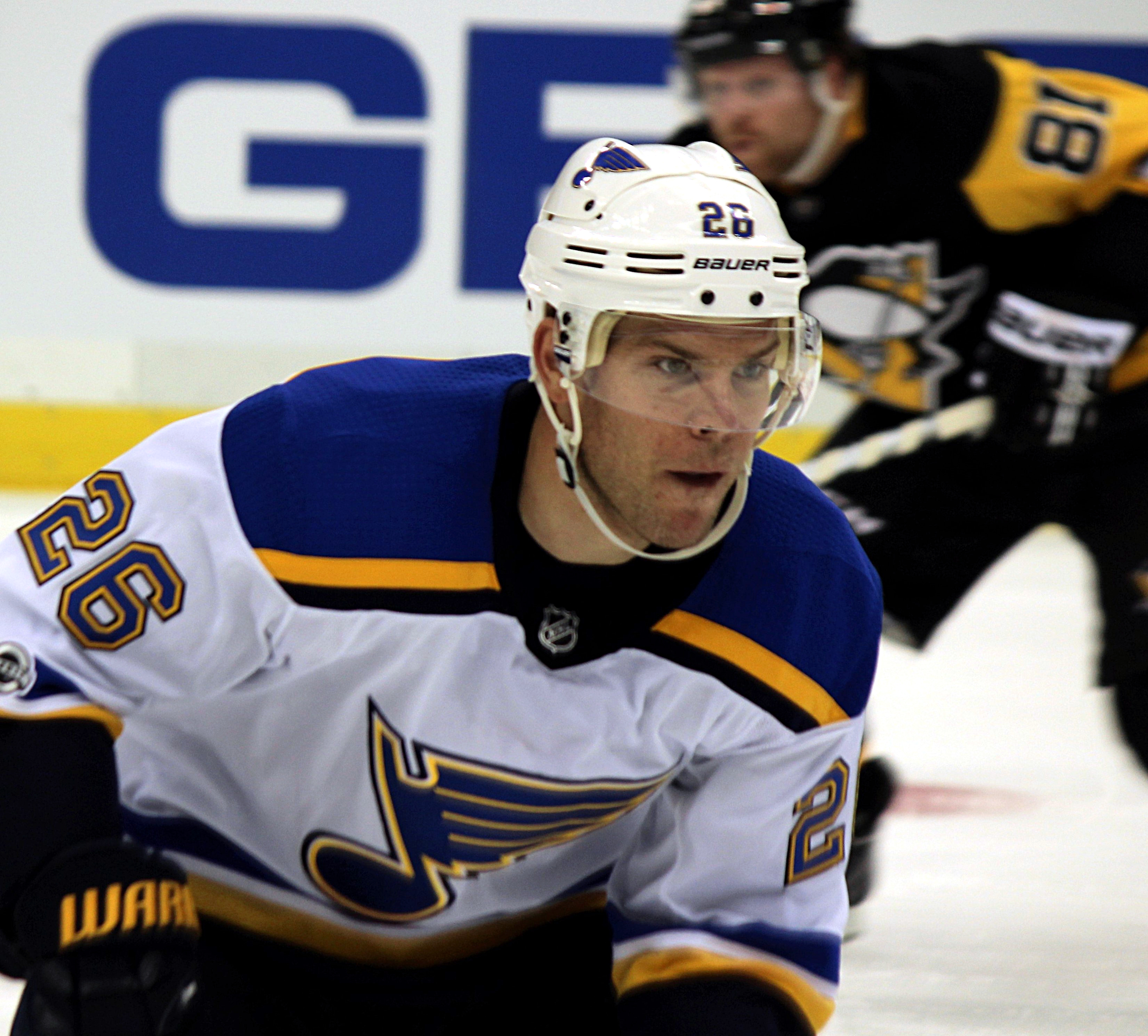 St. Louis Blues forward Paul Stastny during a game against the Pittsburgh Penguins, October 4, 2017, at PPG Paints Arena in Pittsburgh, PA.